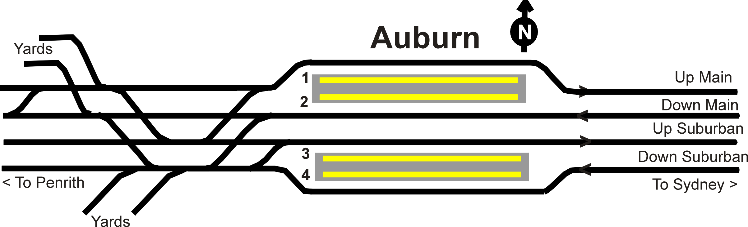 Track layout at Auburn railway station, Sydney